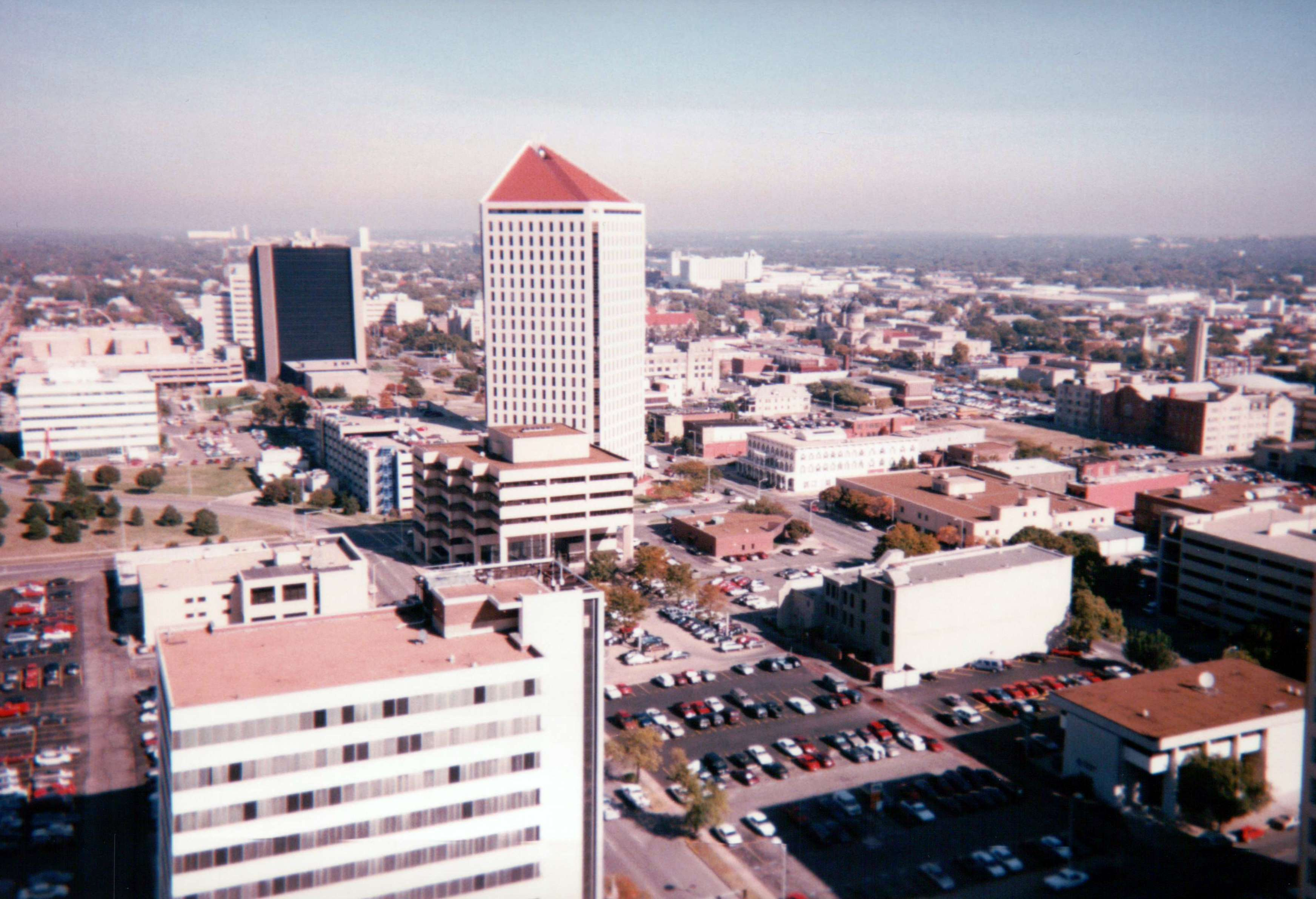 The Epic Center in Wichita as seen from 250 Douglas Place, then known as the Garvey Center, 1999.